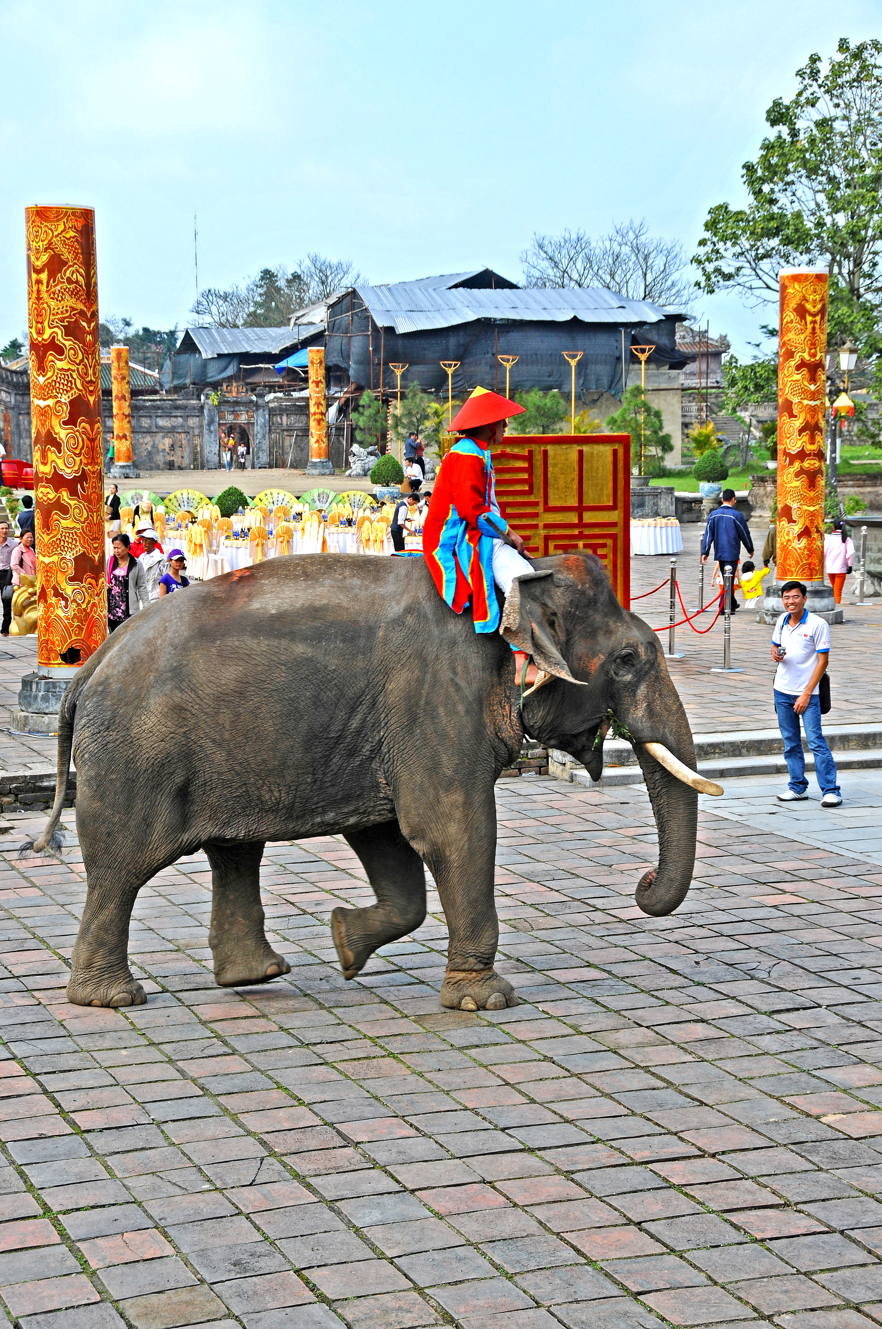 PLEASE, no multi invitations (none is better) in your comments. Thanks. I think the elephant was part of the party that was about to happen. Hue, Vietnam I rode one for an hour in Thailand